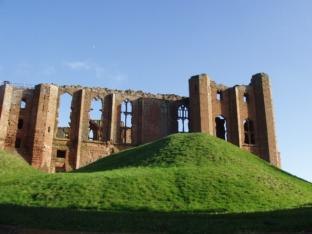 Ruins of Kenilworth Castle. On a cold, clear November day, the ruins of the Castle have a haunting appeal.